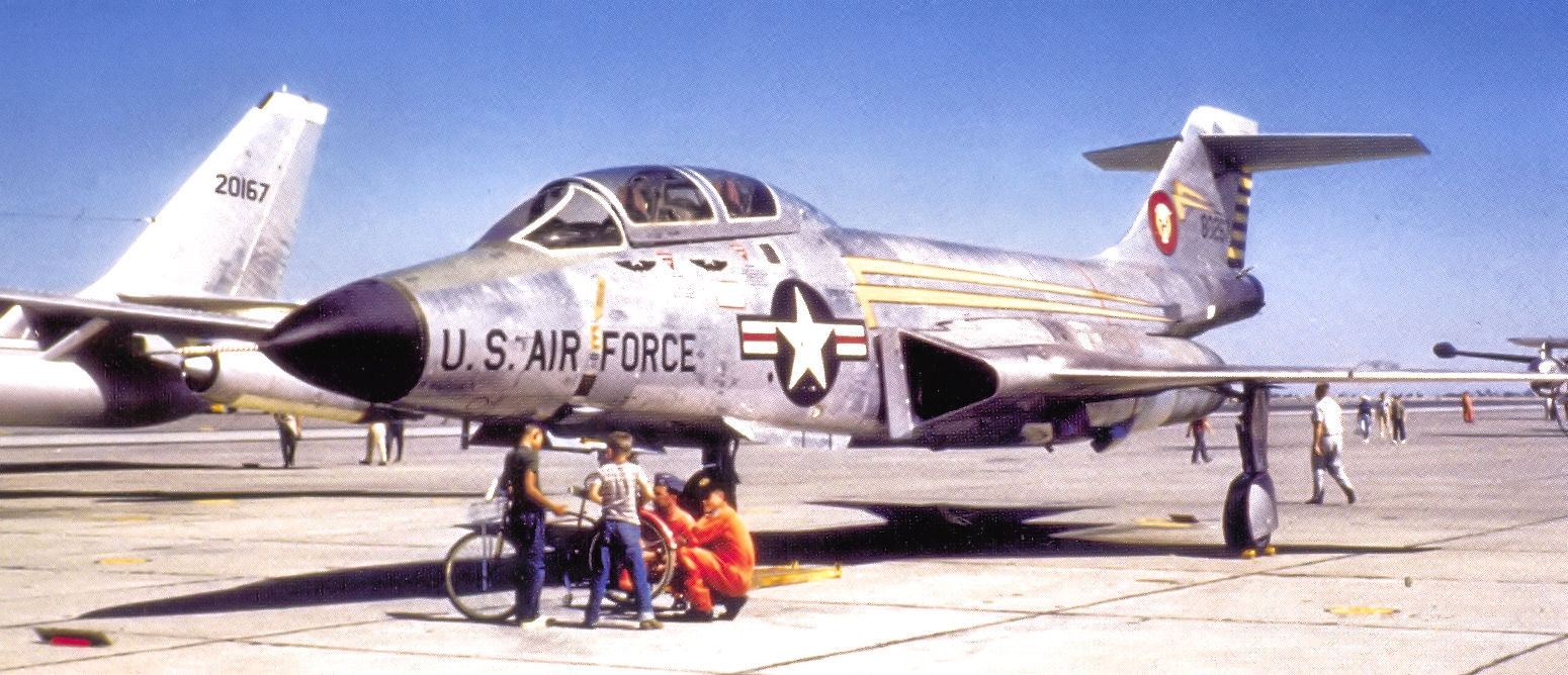 15th Fighter-Interceptor Squadron McDonnell F-101B-105-MC Voodoo Davis Monthan AFB, Arizona, May 1961 0259 seen on Eglin AFB test range in 1983.